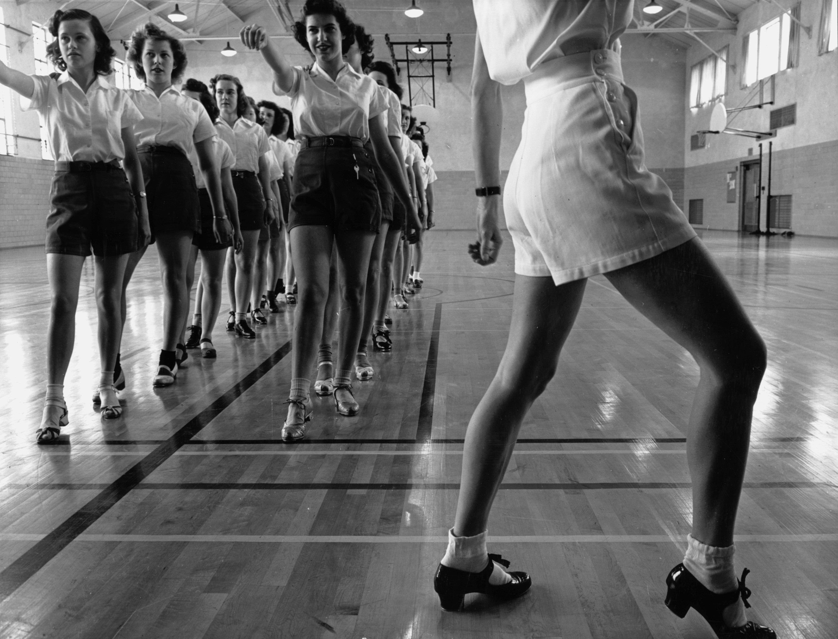 Tap dancing class in the gymnasium at Iowa State College. Ames, Iowa.